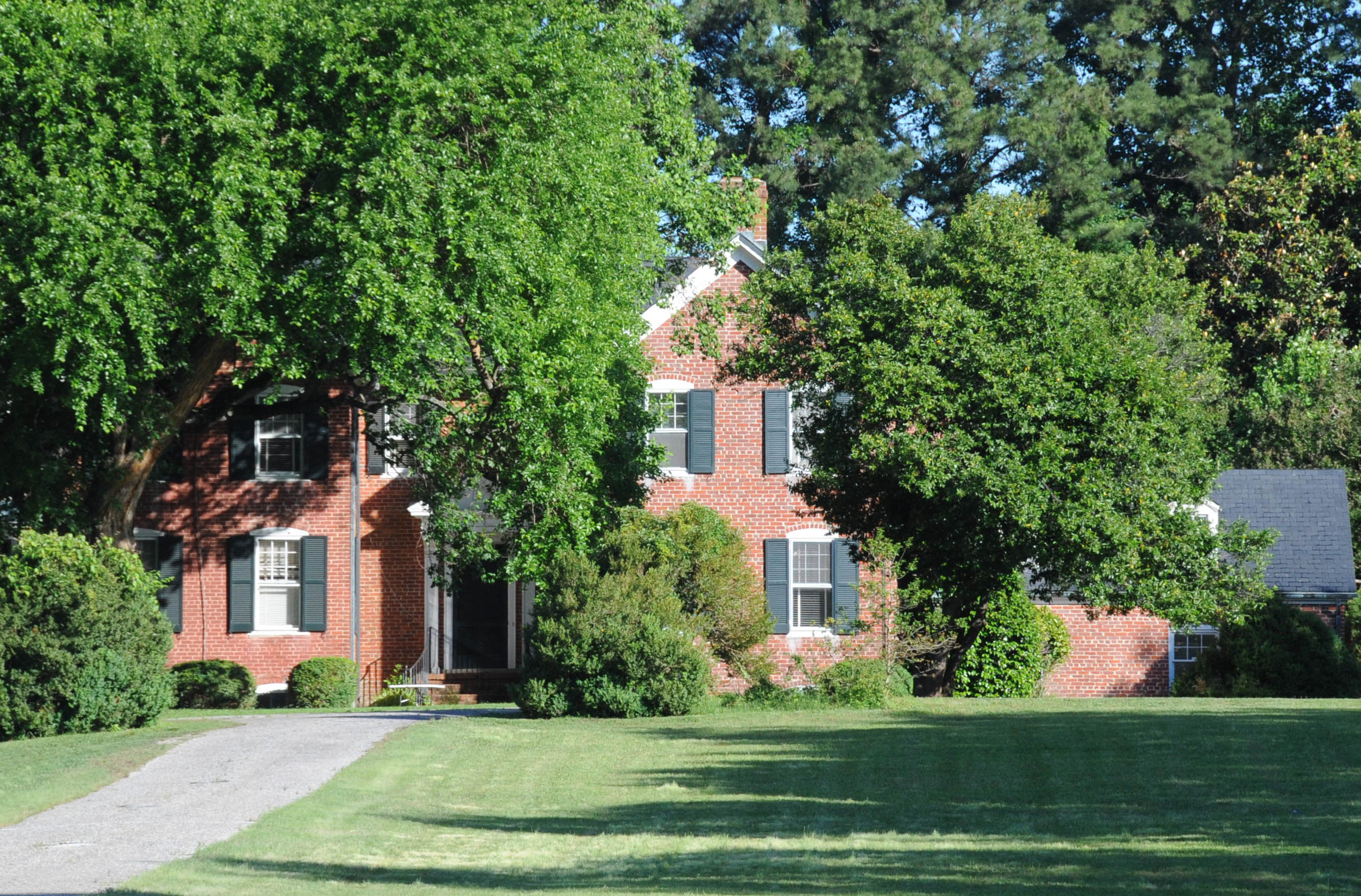 BRICK FARMHOUSE BUILT IN 1852 AND IS THE ONLY KNOWN EXAMPLES OF PICTURESQUE STLE IN VIRGINIA’S LOWER PENINSULA